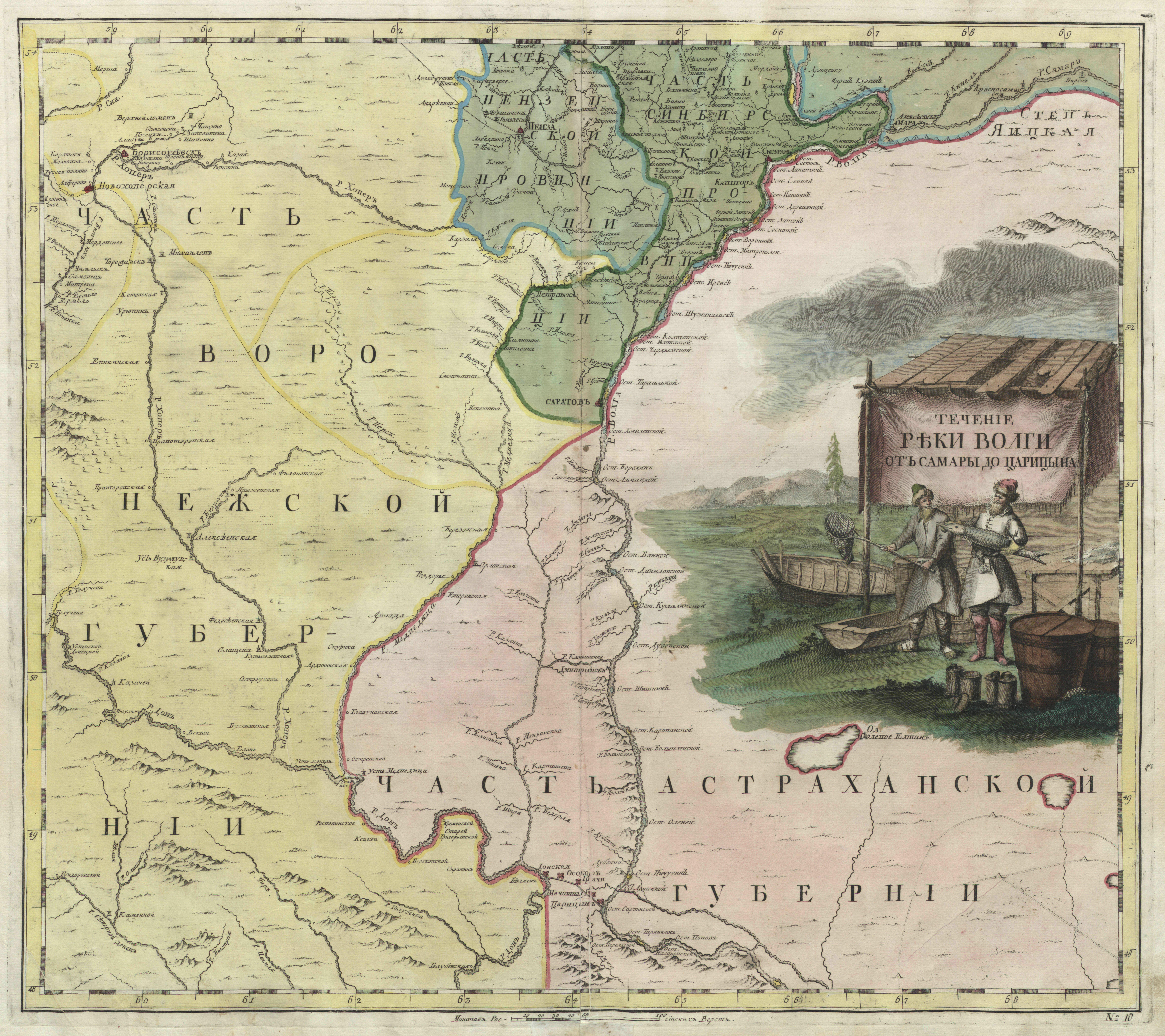 First official geographic atlas of the Russian Empire (1745). Volga river from Samara to Tsaritsyn. Hand-coloured copper engraving.